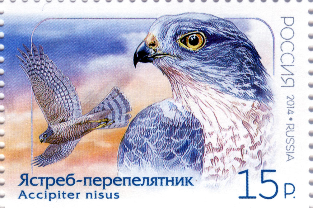 Eurasian sparrowhawk. Post of Russia 2014. Joint issue with North Korea.